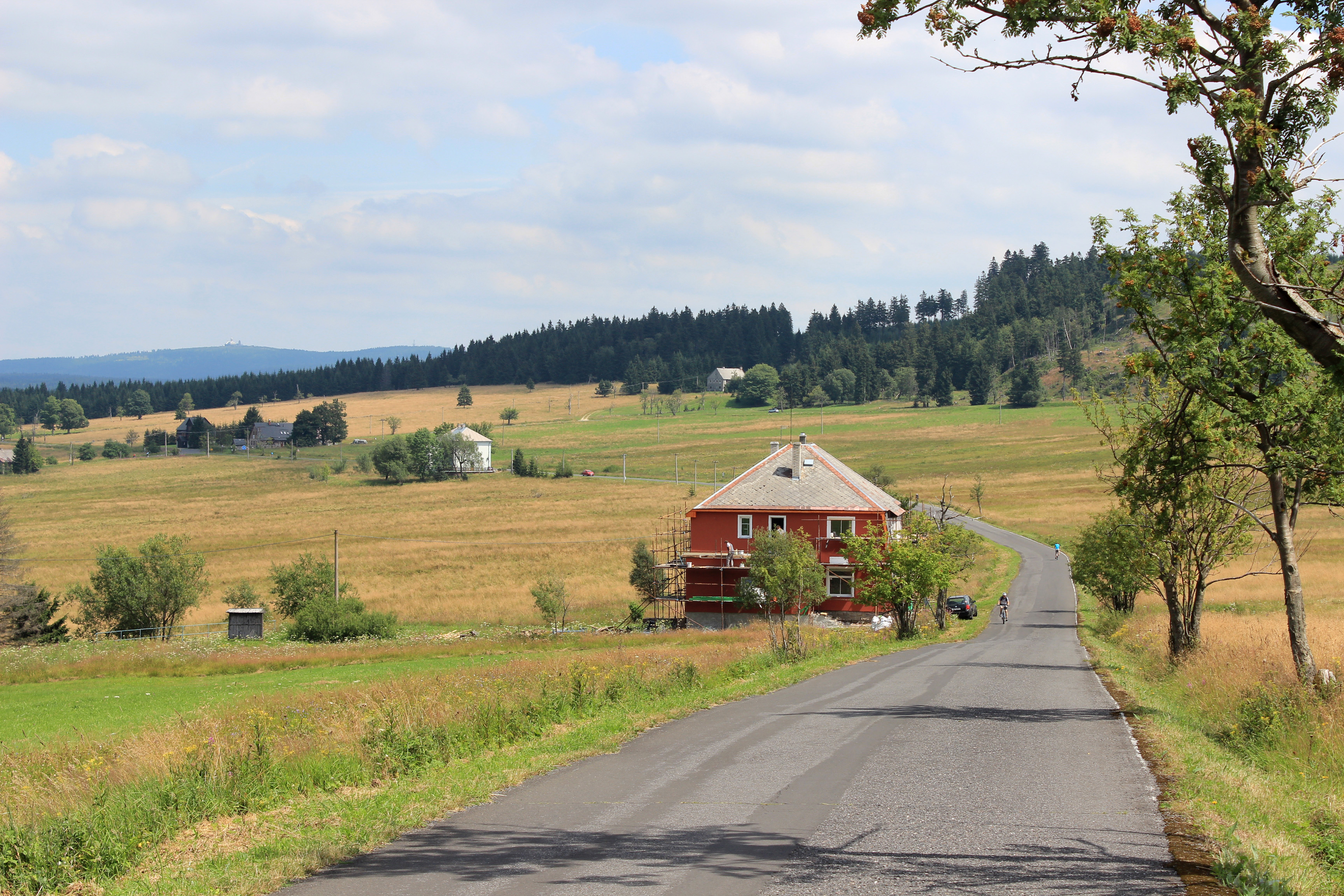 Ryžovna, part of Boží Dar, Czech Republic. Road from Horní Blatná.